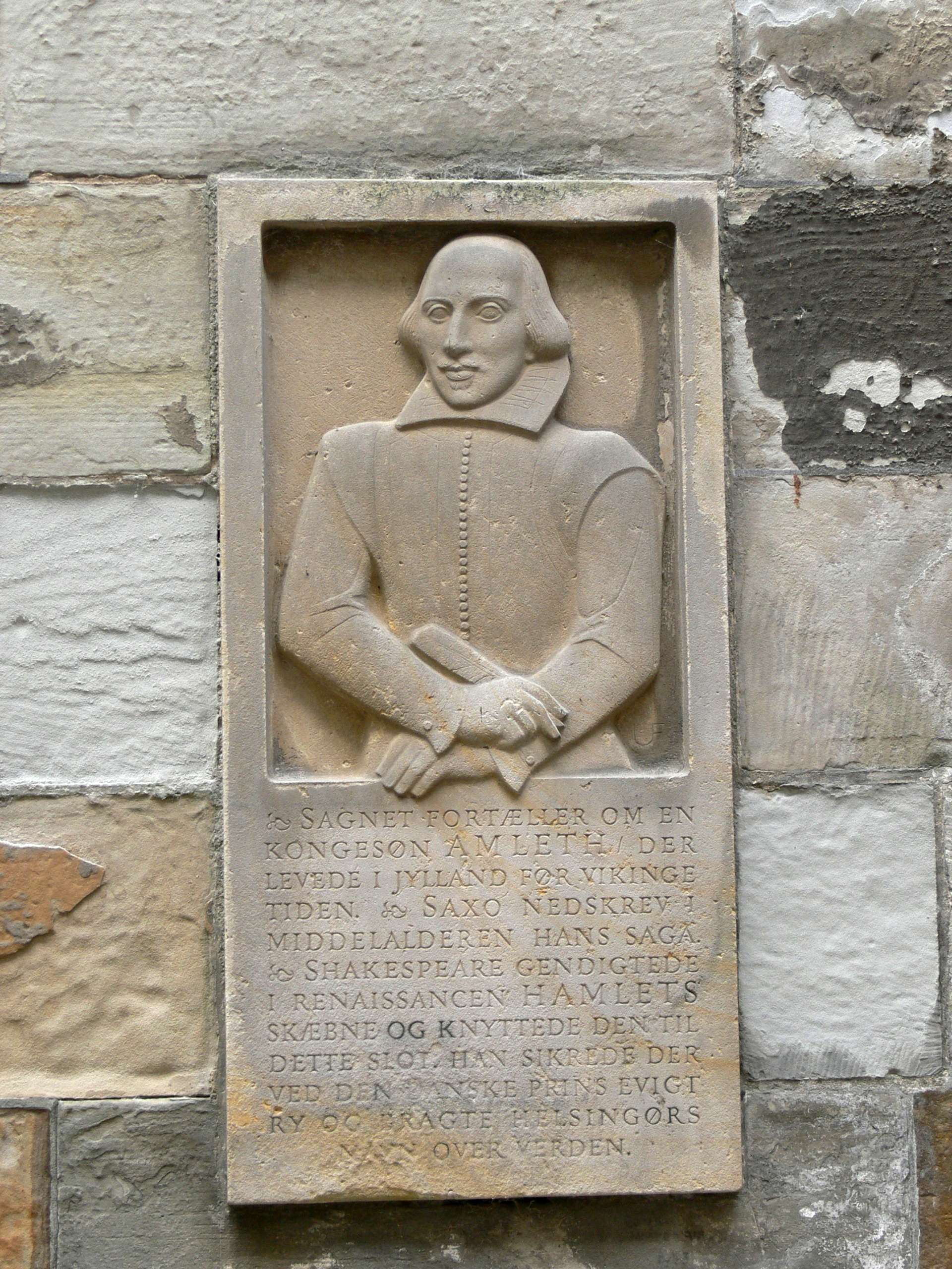 Kronborg castle, Helsingör, Sweden. Shakespeare memorial in the Four-gate-court.